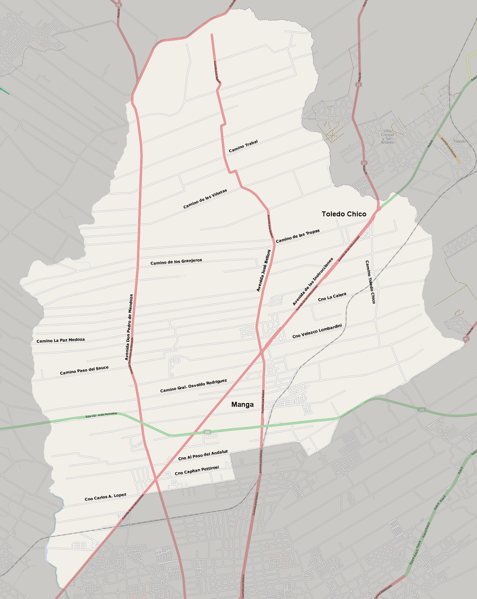 Street map of Manga - Toledo Chico, Montevideo, exported from OpenStreetMap. I added shading to delimit the barrio and marked the main streets and locations. This map may be incomplete, and may contain errors. Don't rely solely on it for navigation.